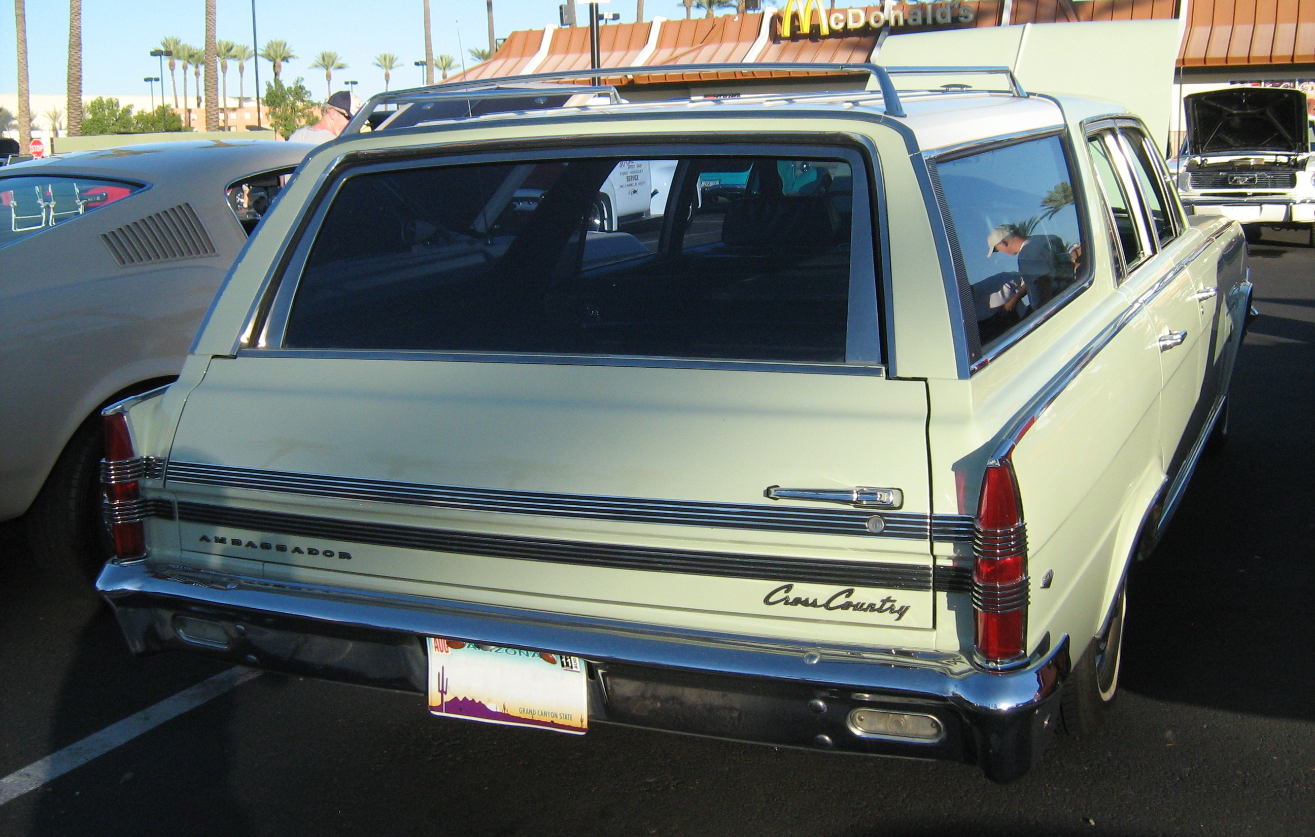 1966 Ambassador 990 station wagon by American Motors Corporation (AMC). Finished in light green and featuring the factory green fabric upholstery. The "Cross Country" model identification was used by AMC for its station wagons. Also visible is the optional left side hinged rear door, with a door handle on the right side. Standard on wagons with two-rows of seats was a bottom hinged tailgate with electric, fully retracting rear window. Note: the wheel covers on this car are from a previous model year (NOT used in 1966).